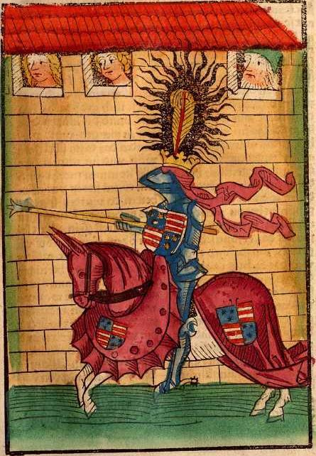 Original Source: Chronik des Konstanzer Konzils von Ulrich Richental, 1483, Ink, LXXXVI r. Herman II, Count of Celje.